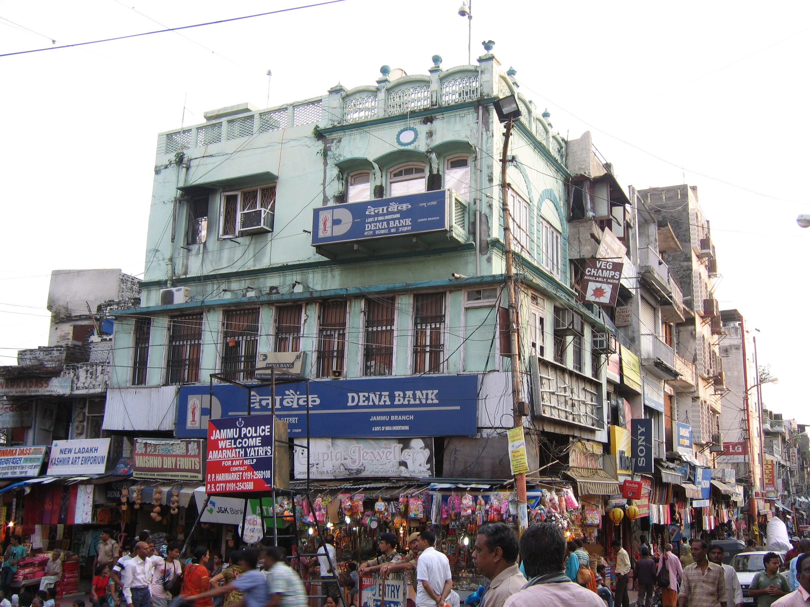 Views from Jammu city